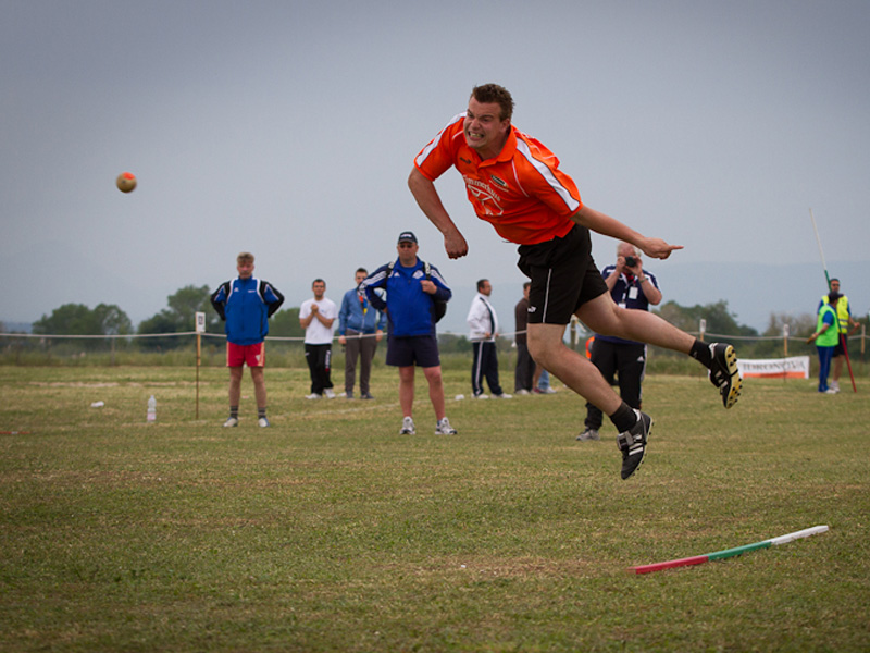 EK 2012